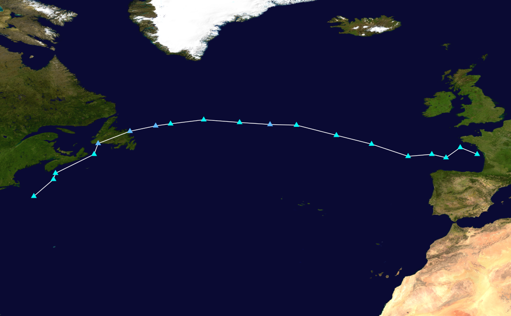 Track map of Storm Cecilia of the 2019-20 European windstorm season. The points show the location of the storm at 6-hour intervals. The colour represents the storm's maximum sustained wind speeds as classified in the Saffir–Simpson scale (see below), and the shape of the data points represent the nature of the storm, according to the legend below. Saffir–Simpson scale Tropical depression≤38 mph≤62 km/h Category 3111–129 mph178–208 km/h Tropical storm39–73 mph63–118 km/h Category 4130–156 mph209–251 km/h Category 174–95 mph119–153 km/h Category 5≥157 mph≥252 km/h Category 296–110 mph154–177 km/h Unknown Storm type Tropical cyclone Subtropical cyclone Extratropical cyclone / Remnant low / Tropical disturbance / Monsoon depression